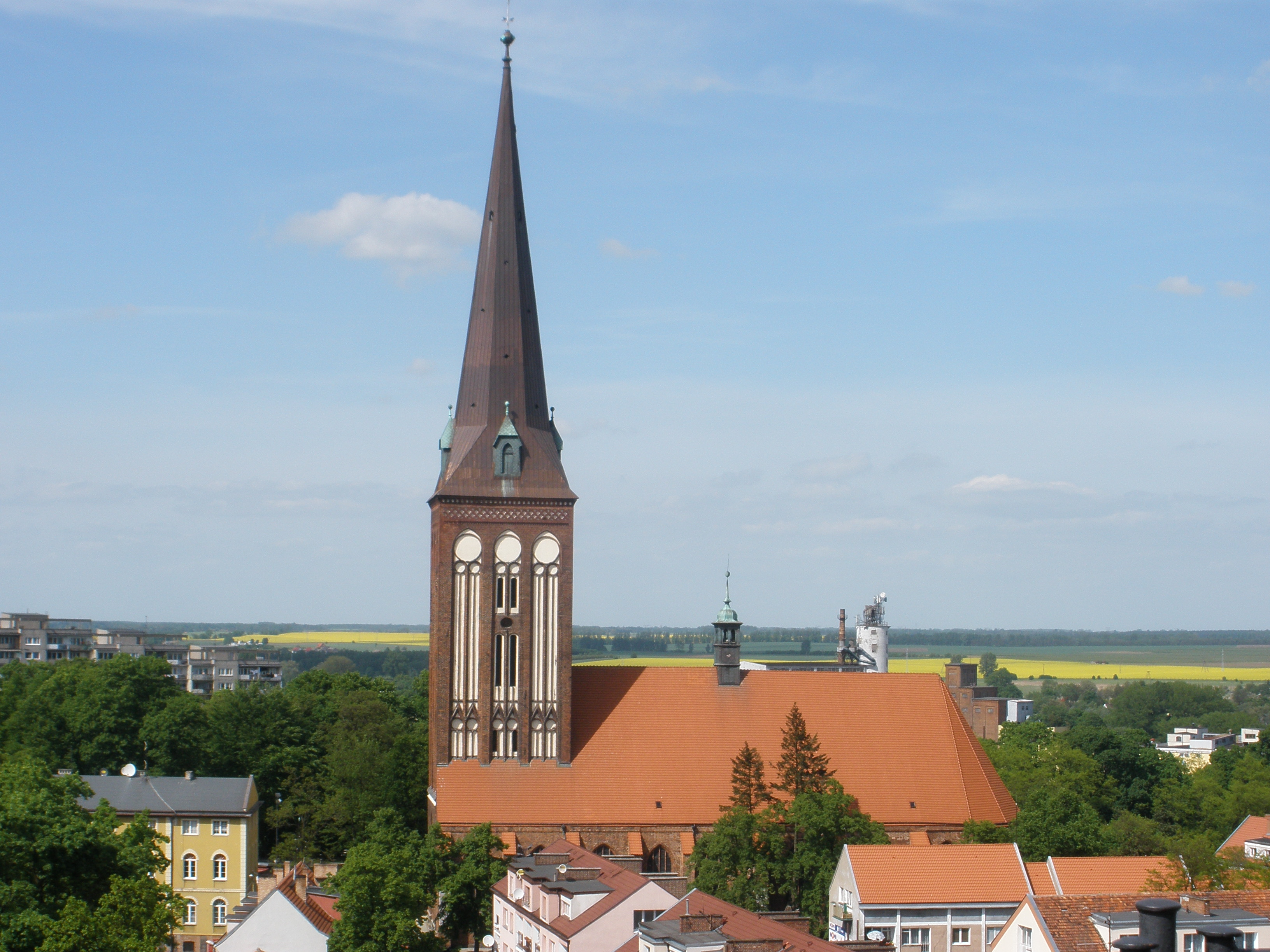 St. John's Church in Stargard Szczeciński.